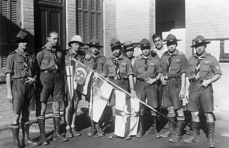 German Scouts in Cairo! After travelling the Balkan countries, a group of German Scouts is currently staying in Cairo to promote the idea of the Scout movement. Information added by Wikimedia users.